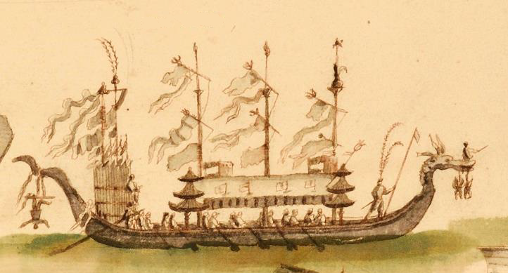 A boat depicted from La Marina de Oriente (1740), which depicts a boat from 1733 Homann map of Batavia. It is identified as calaluz (kelulus).